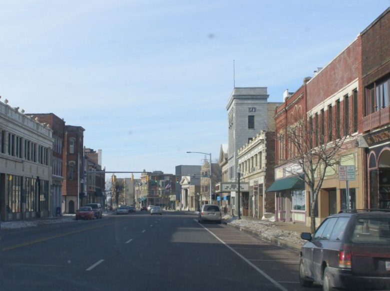 Broadway in Lorain, Ohio (downtown)